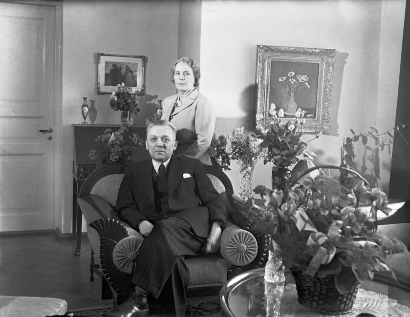 Tyko Reinikka is surrounded by gratulation flowers, October 21, 1947, when he was freed from prison after serving a sentence because Finland had lost the war. Behind him is his first wife, Impi.